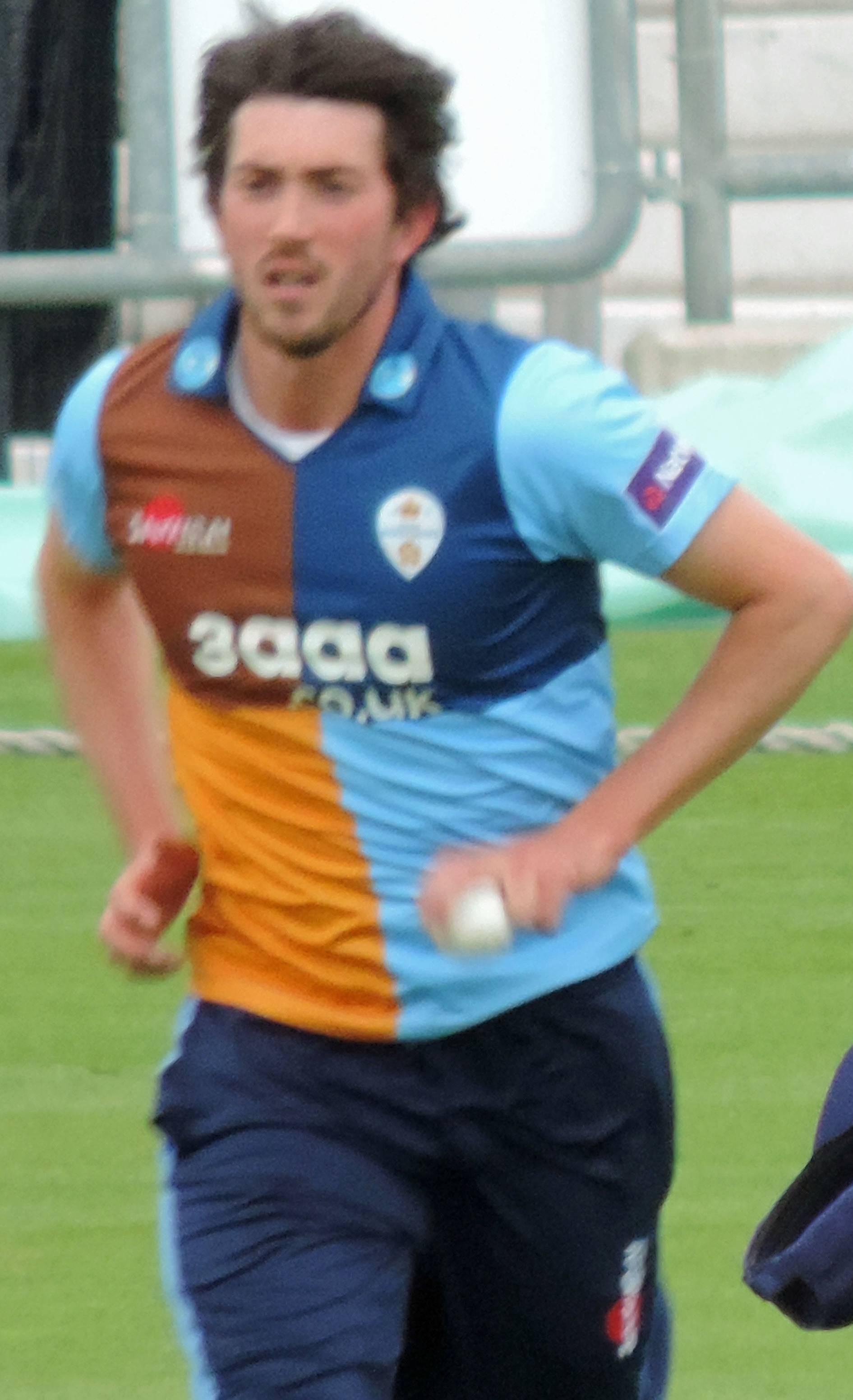 Some pictures from the Twenty20 match between Yorkshire and Derbyshire at Headingley last week; not a great result for me, with Derbyshire losing out by some distance.